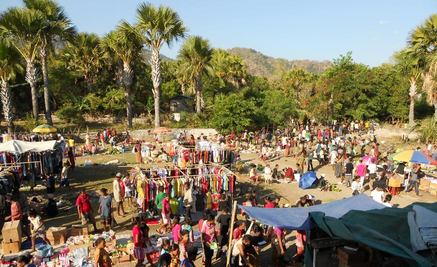 Hera market, East Timor